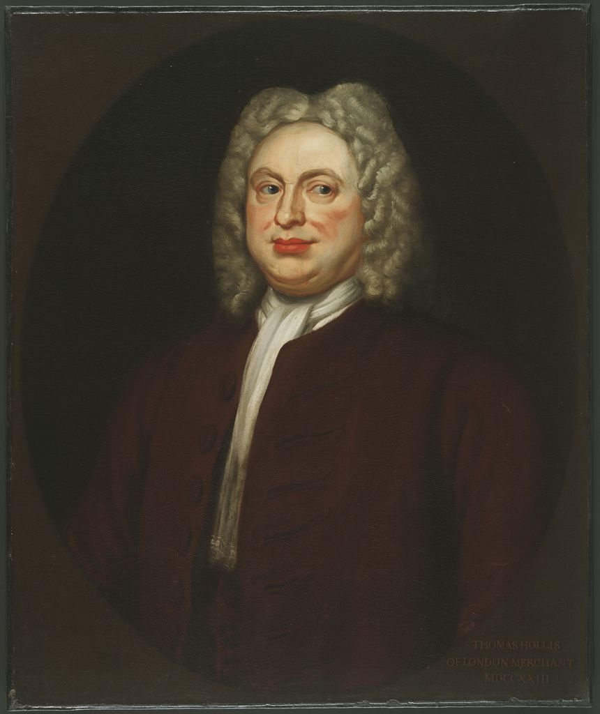 Thomas Hollis III (1659-1731), copy after an original dated 1723